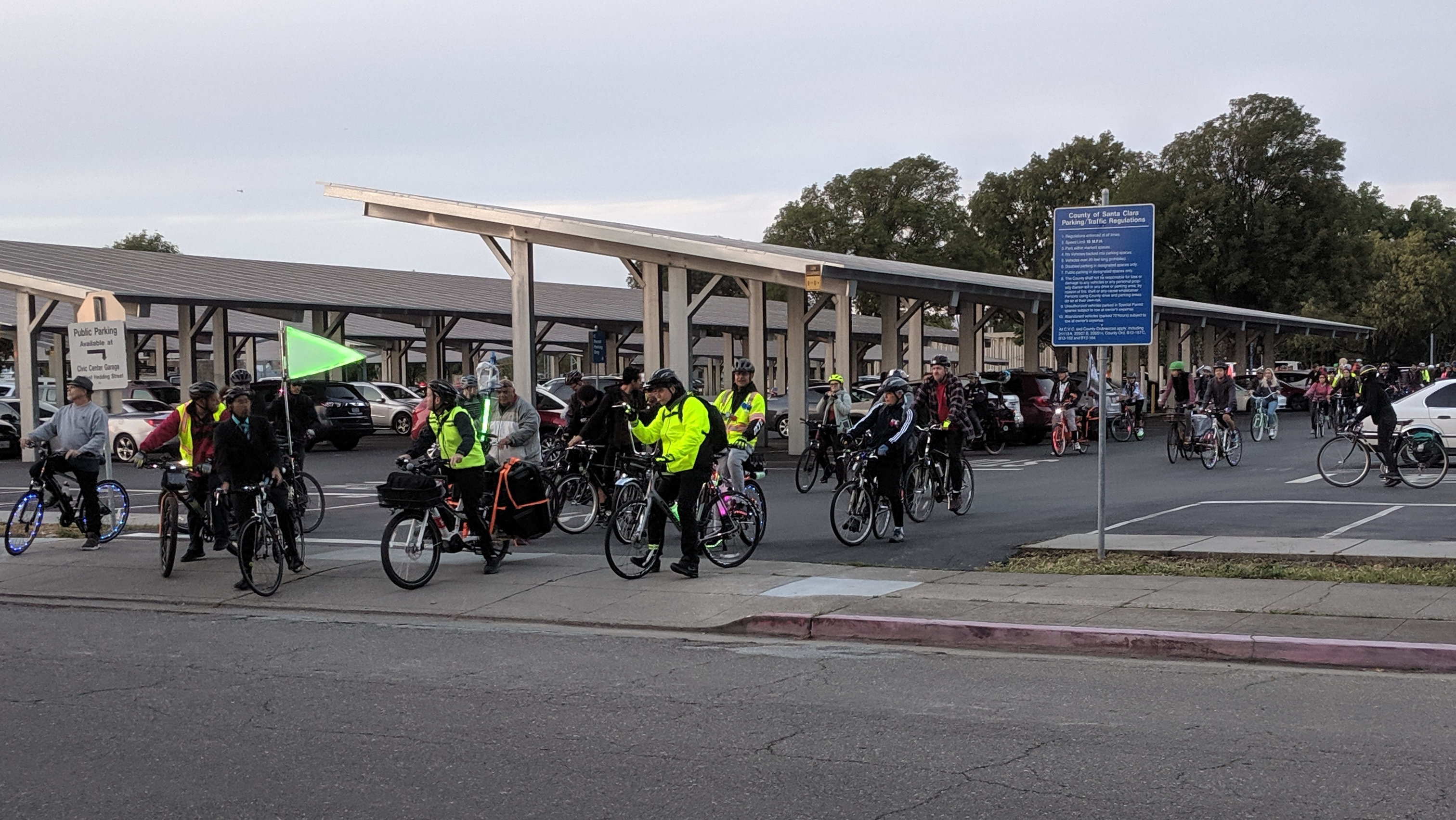 On the May 17, 2019 ride, the San Jose Bike Party group starts to assemble behind that month's ride leader in preparation for departure from the parking lot at the start point of the ride.